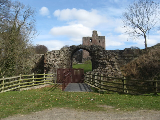 Entrance to Norham Castle The castle at Norham changed hands between the Scots and the English no less tan nine times and was described by the Scots as the most dangerous place in England.